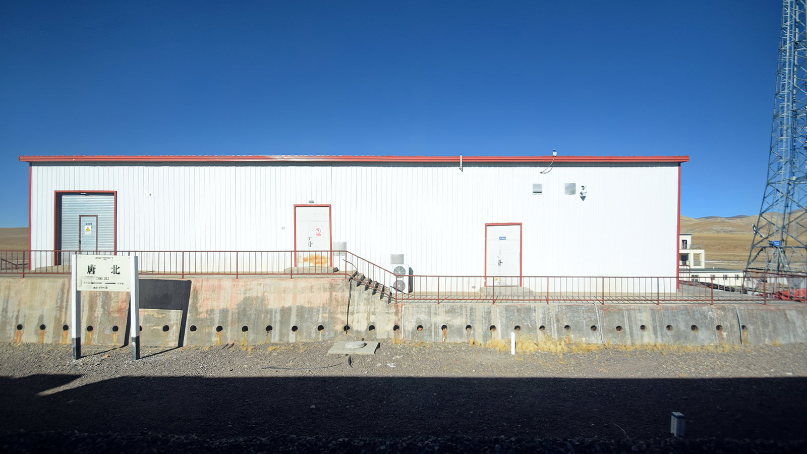 Tanggula Bei (North) Railway Station / Tang Bei Railway Station, Qinghai-Tibet Railway (altitude 4955m)